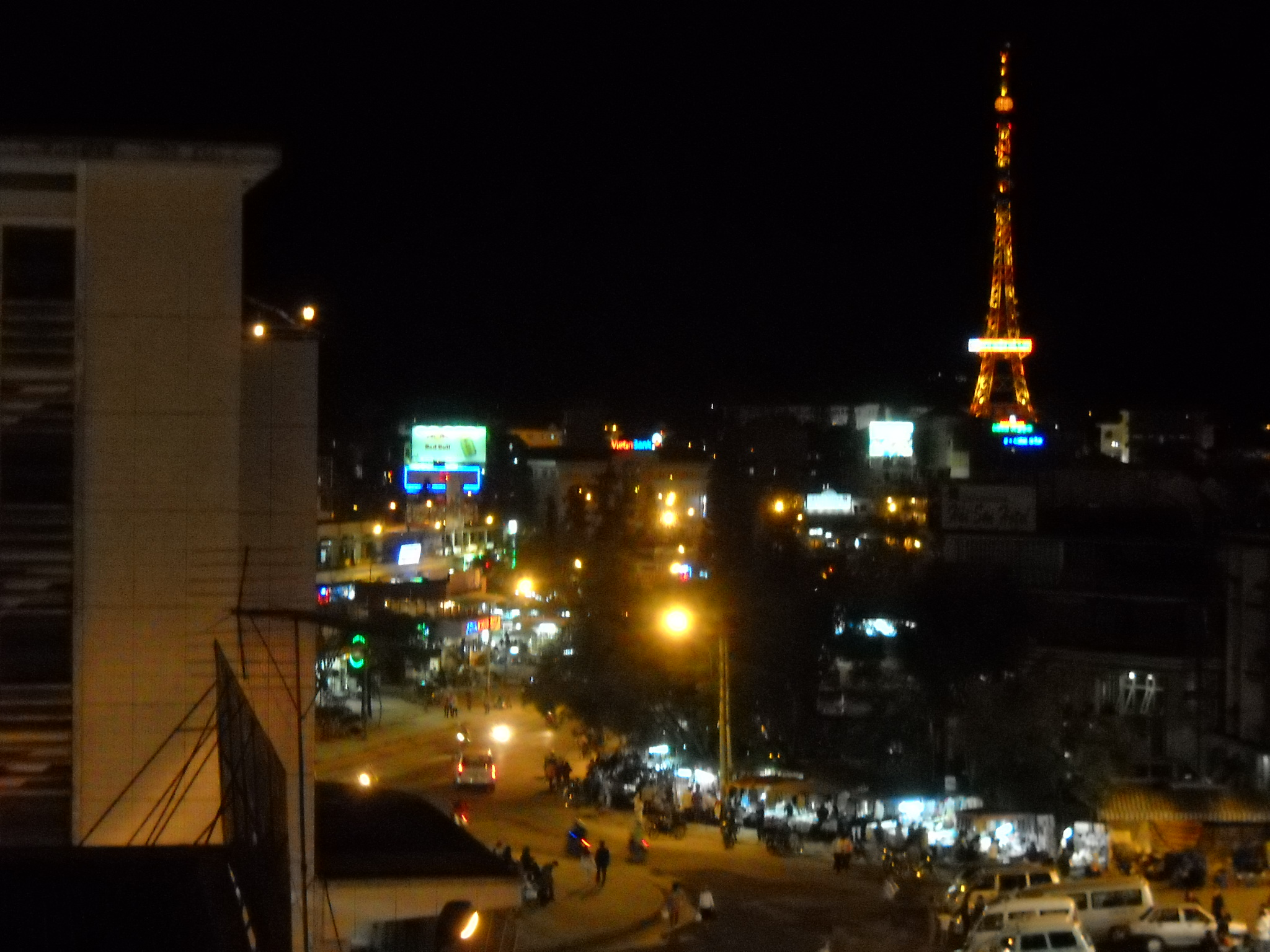 The night view of Da Lat